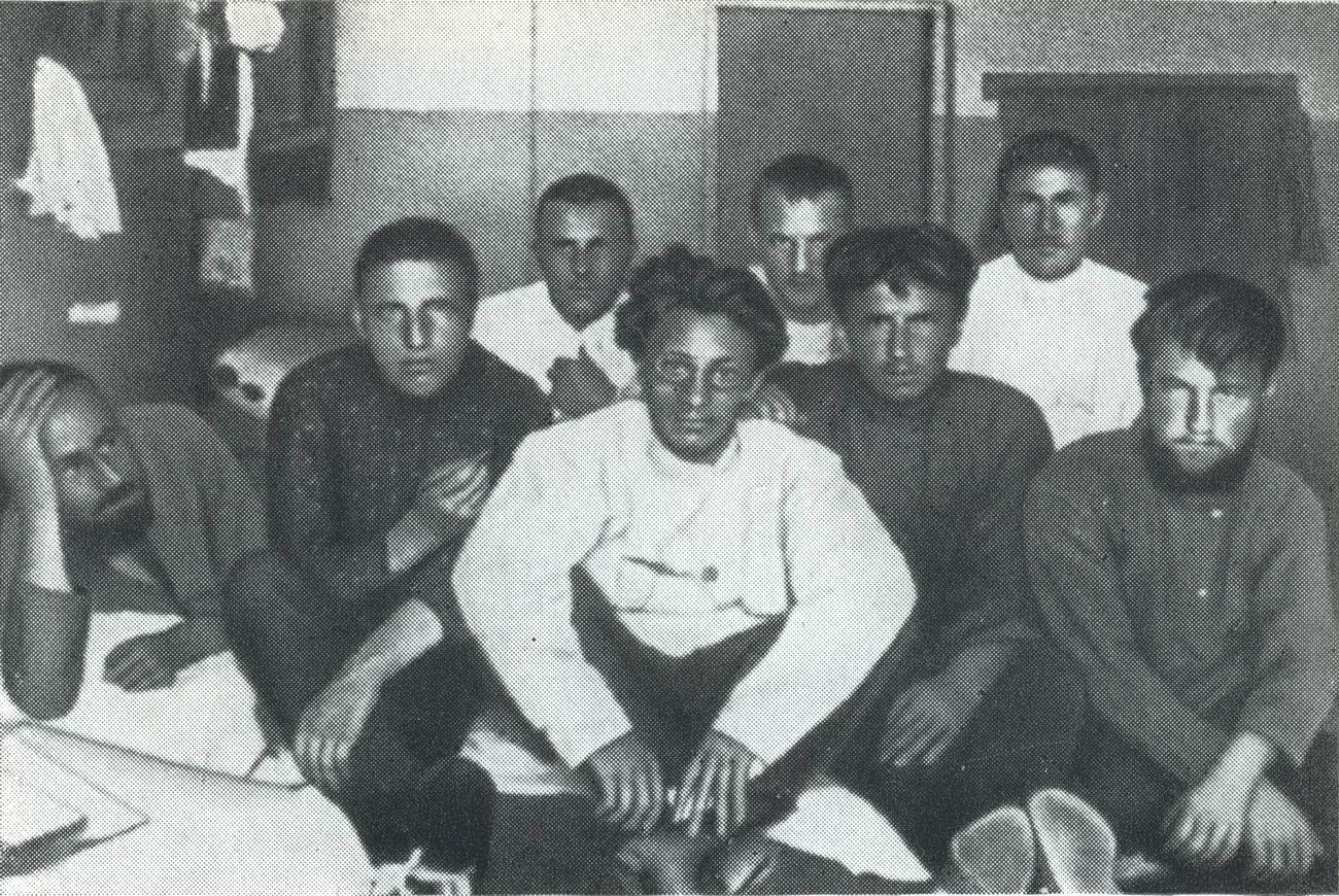 Yakov_Sverdlov (1885-1919).Yakow Sverdlov with a group of prisoners. Perm central prison. 1906.